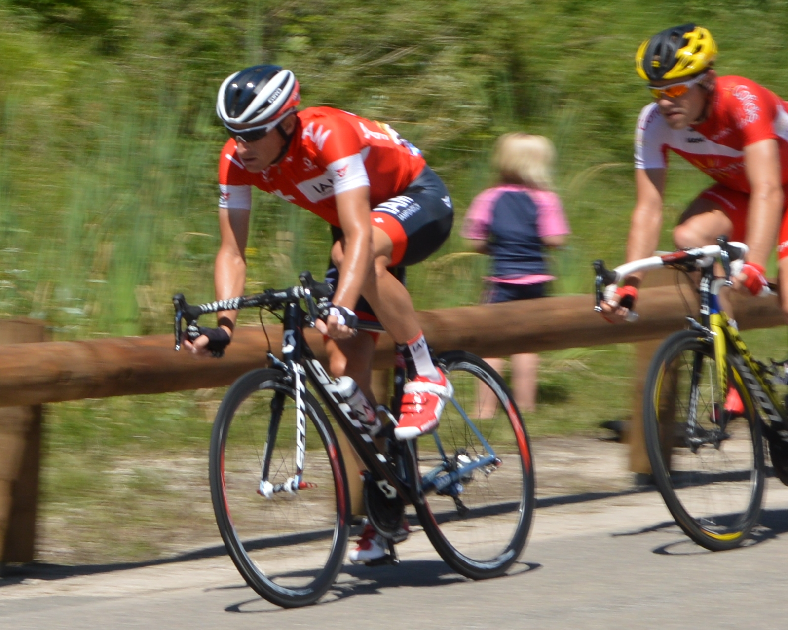 Martin Elmiger at the head of the breakaway group during the 11th stage of the Tour de France in 2014. Photo taken on the D27 near the Lac de Chalain in the Jura.